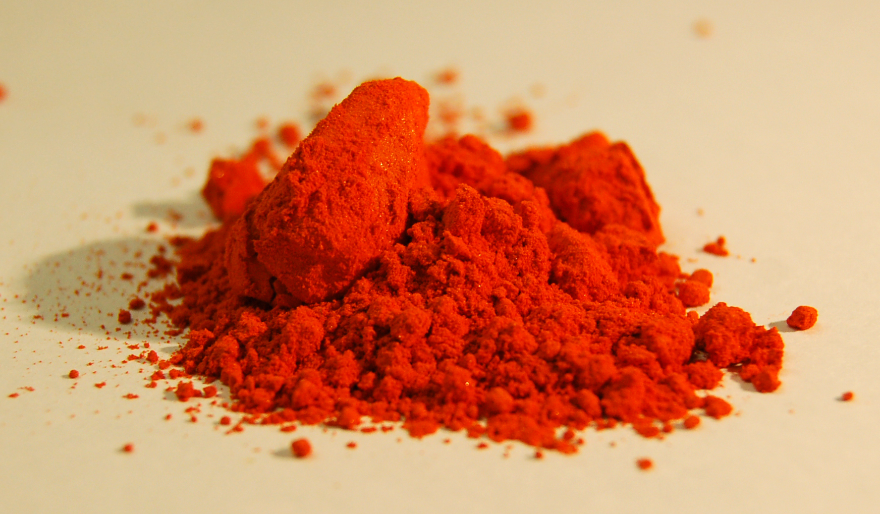 A sample of pure methyl orange in powder form